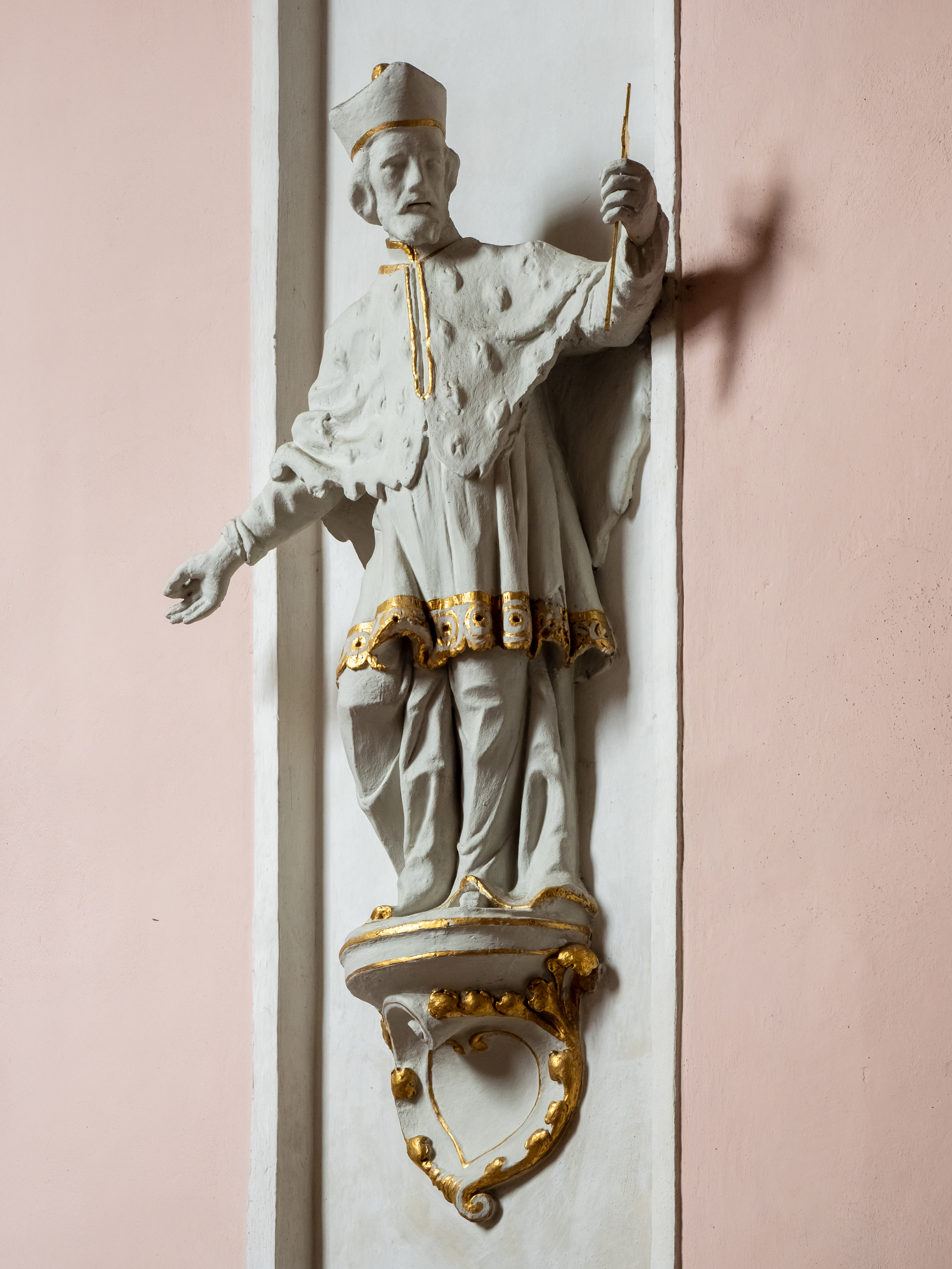 Statue in the Catholic parish church Weißenohe